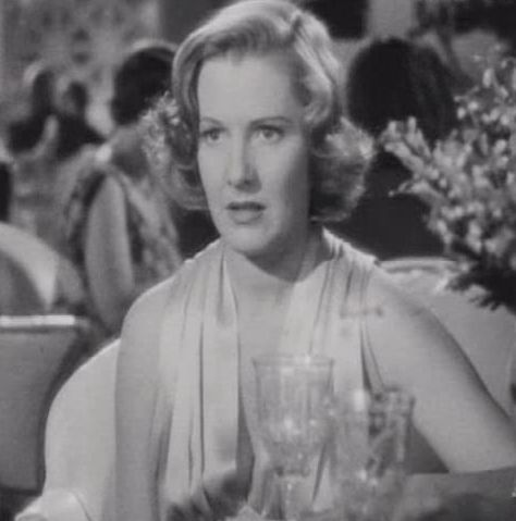 Cropped screenshot of Jean Arthur from the trailer for the film You Can't Take It with You